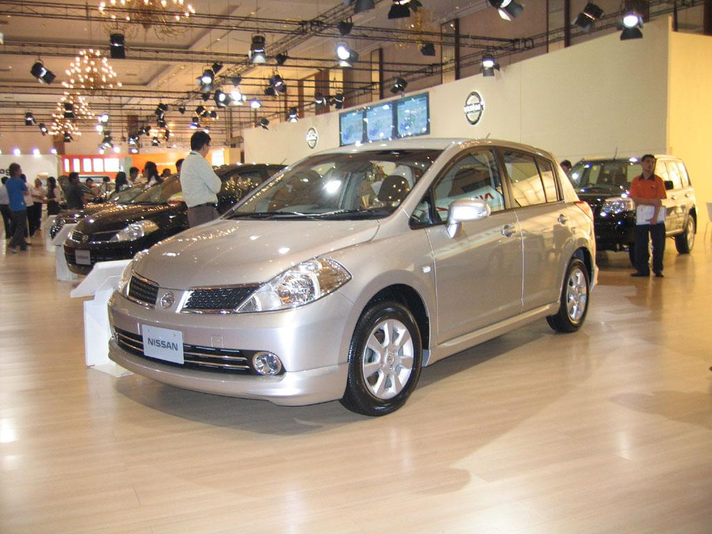 2007 Nissan Latio 1.8 Hatchback.